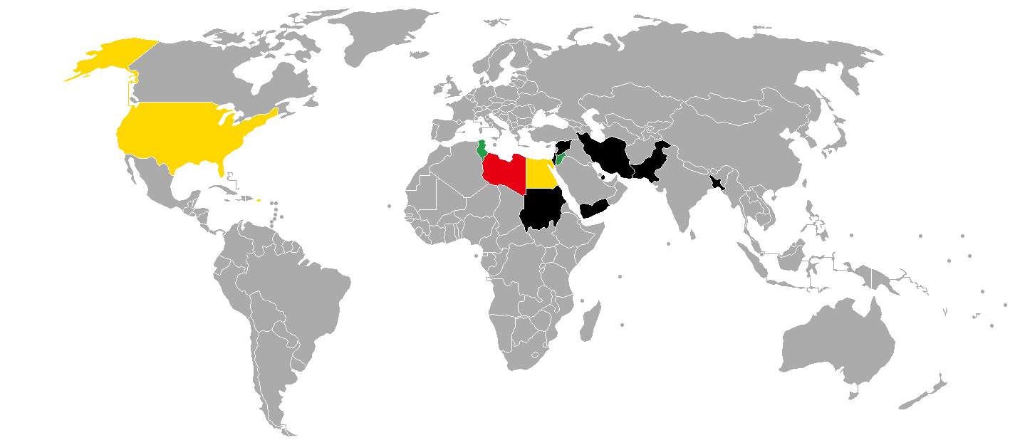 Visa policy of Liby Libya Visa free access Provisional and restricted visa-free access Entry ban Visa required